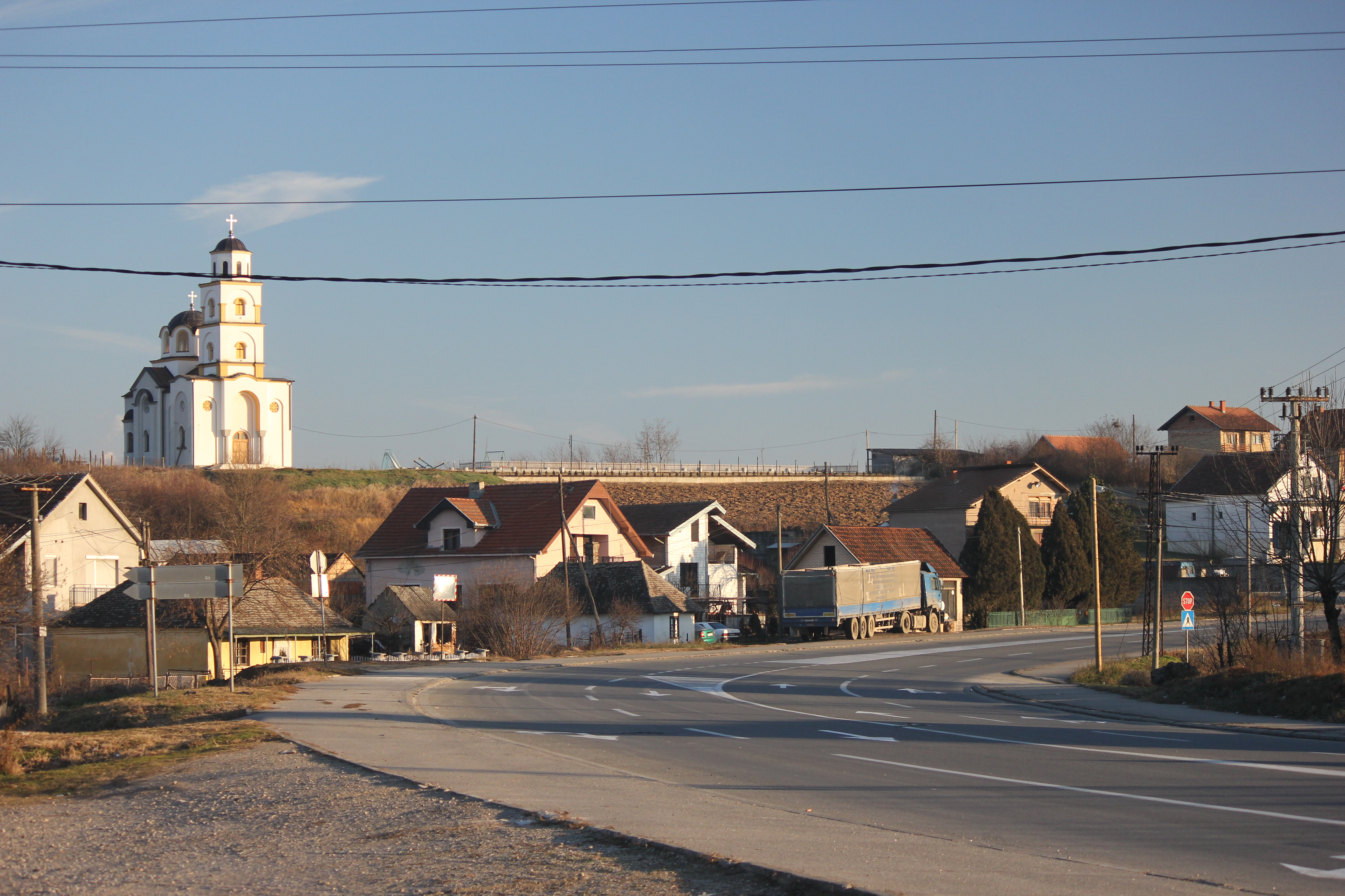 The picture that shows exact height of hill of Mišar where was sconce fortress of battle of Mišar 1806. The church is on top of hill while houses are under hill.